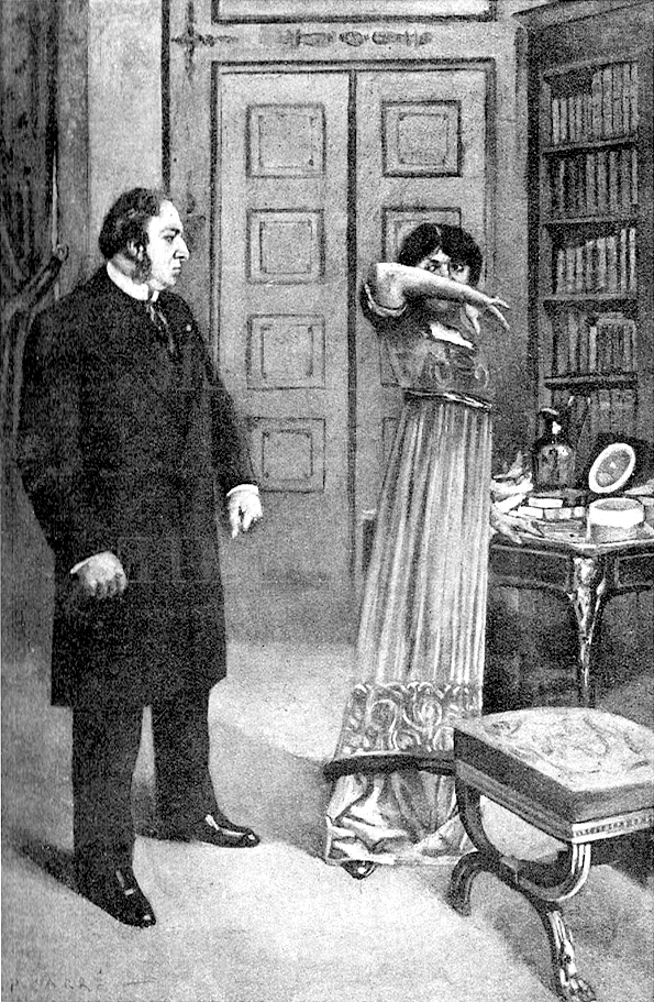 Illustration of Home (1908) by Octave Mirbeau (1848-1917) and Thadée Natanson (1868-1951): Courtin — Misérable ! Tais-toi !… Tais-toi !…